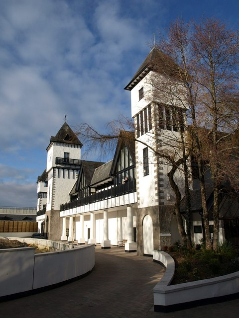 Trago Mills. The southwest corner of the main store building, with fairytale towers and gables. The Atrium entrance is just to the right. Included is 1630432; the far end is across an easting gridline in SX8174.